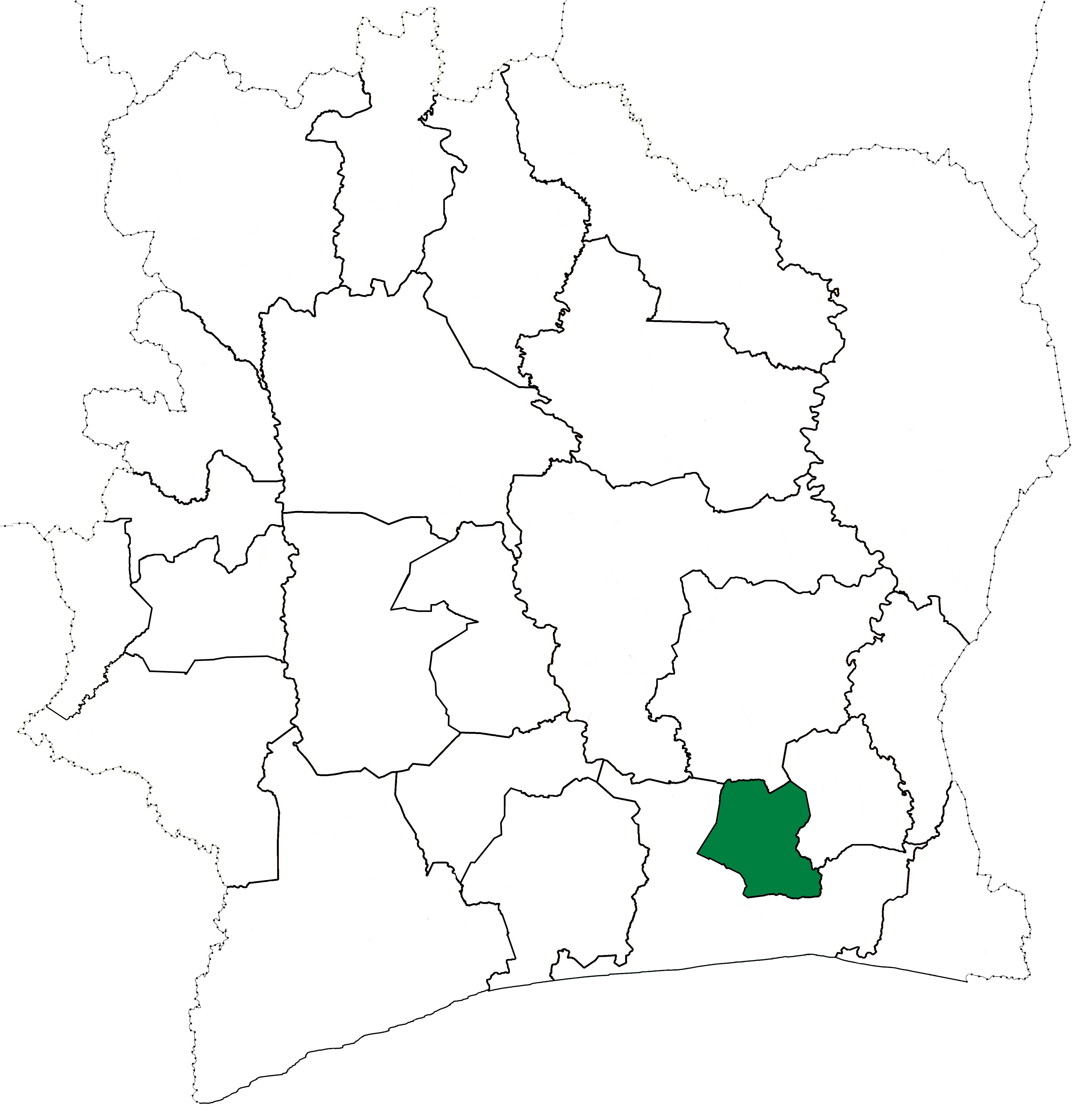 Locator map for Agboville Department in Côte d'Ivoire when the 24 new departments were created in 1969. Agboville Department has retained these boundaries since, but other departments began to be divided in 1974.